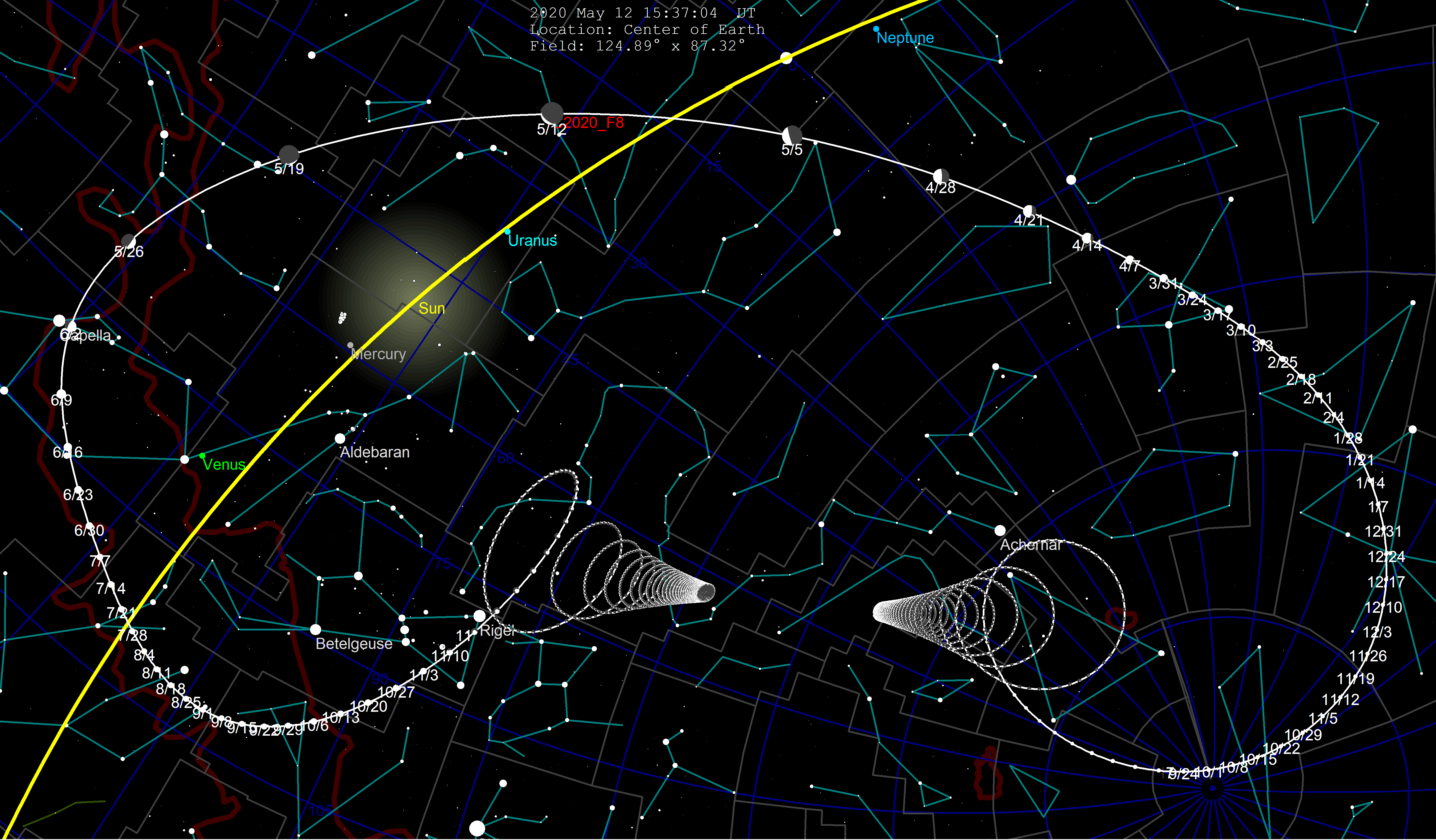 Comet C/2020 F8 (SWAN) sky path